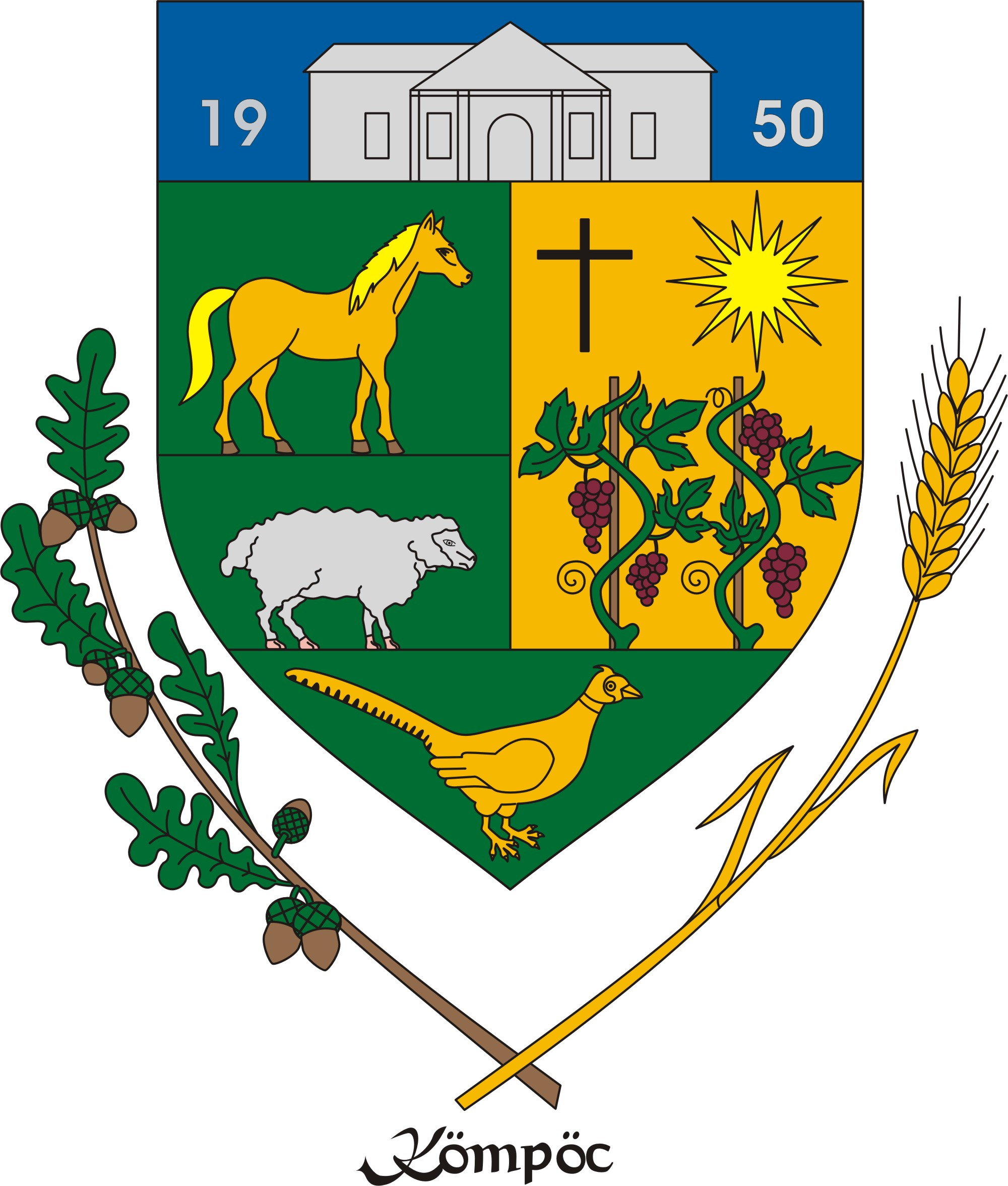 Coat of arms of Kömpöc, Hungary